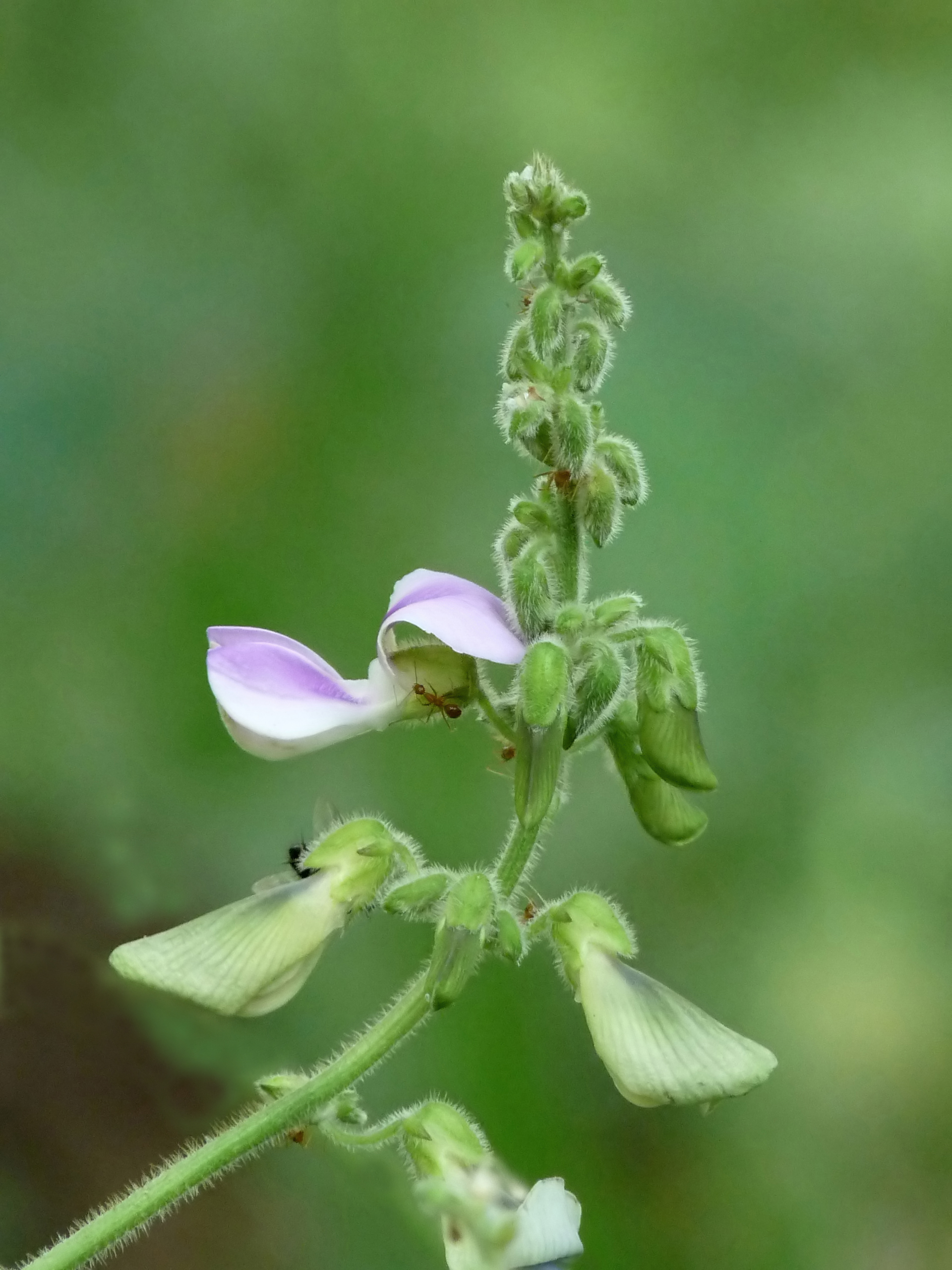 Pueraria phaseoloides, Tropical Kudzu, is a climbing, perennial shrub, with slender, rusty-hairy stems growing to 2-10 m long. Leaves are trifoliate with distinctive leaflets which are rhombic in shape, 3-15 cm long. Leaflet margin sometimes have undulations. Leaf stalk is 3-11 cm long. Flowers arise in raceme-like clusters, 15-30 cm long. Flower stalks are 2-5 mm long. Sepal tube is 3-4 mm long, velvety, with the upper 2 teeth joined almost to tip. Petals are lavender, with white margins. Standard petals is broadly elliptic, about 1.8 cm long, eared at base. Wings are eared and lobed at base. Keel is sickle shaped, acute. Fruit is linear, 5-10 cm long, velvety, dark grey. Tropical Kudzu is found in the Himalayas, from Nepal to Sikkim, Assam and South East Asia.